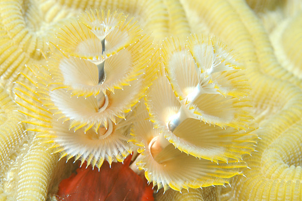 Christmas Tree worms (Spirobranchus giganteus) in a Brain Coral, Bonaire, Dutch Antilles.